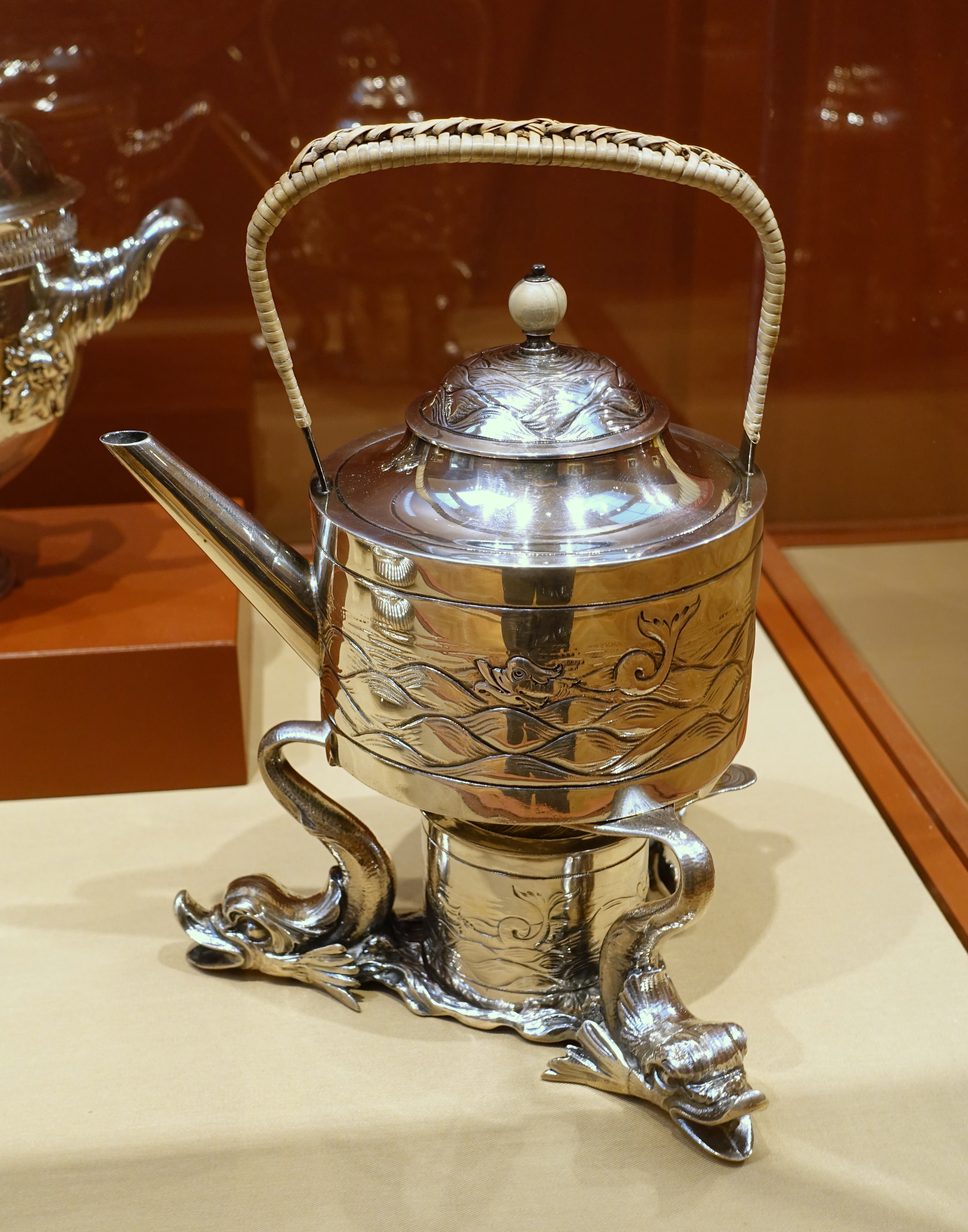 Exhibit in the Currier Museum of Art - Manchester, New Hampshire, USA.